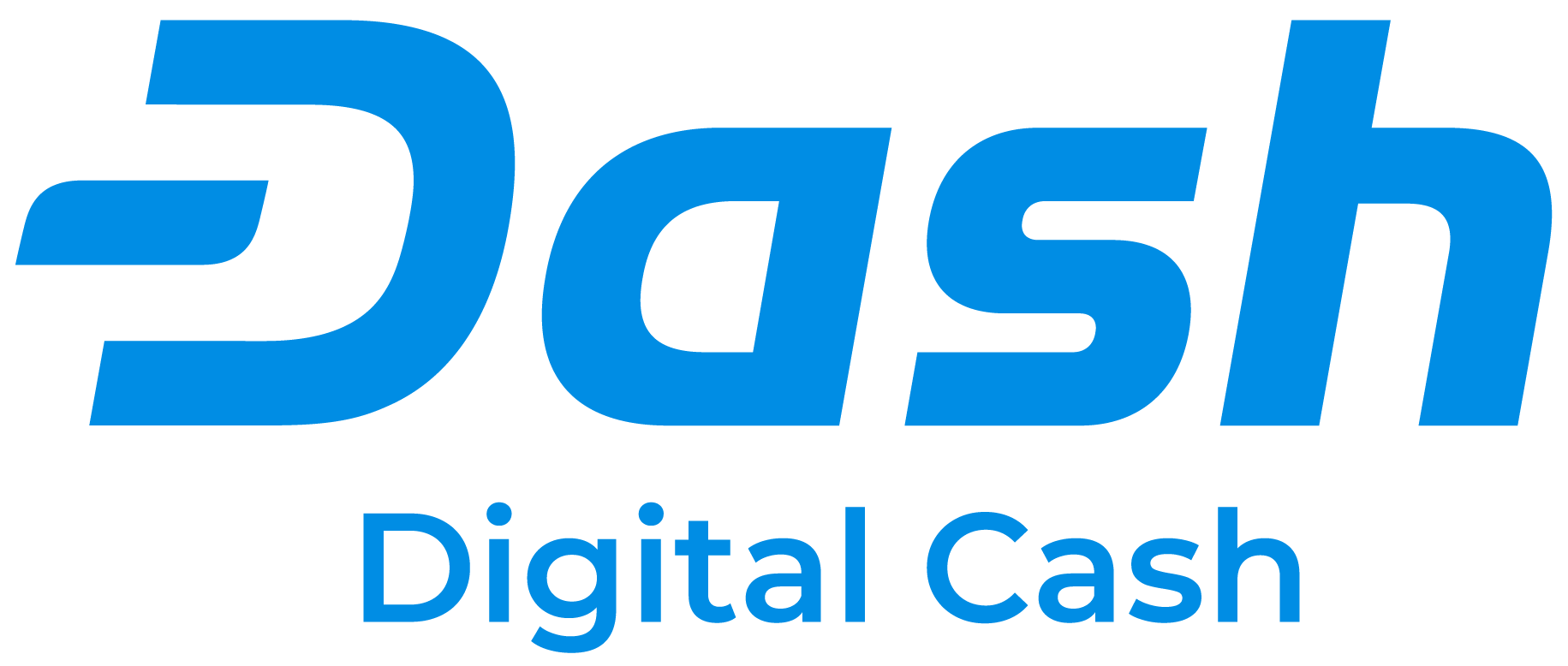 Dash Logo